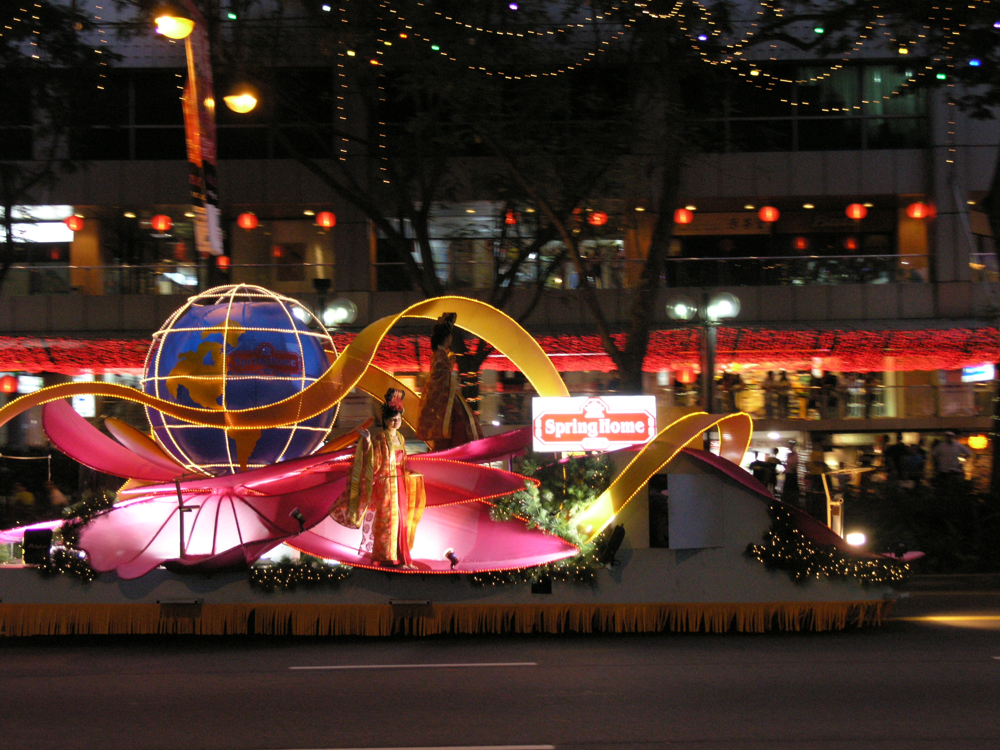 Chingay parade celebrating Chinese New Year in Singapore.